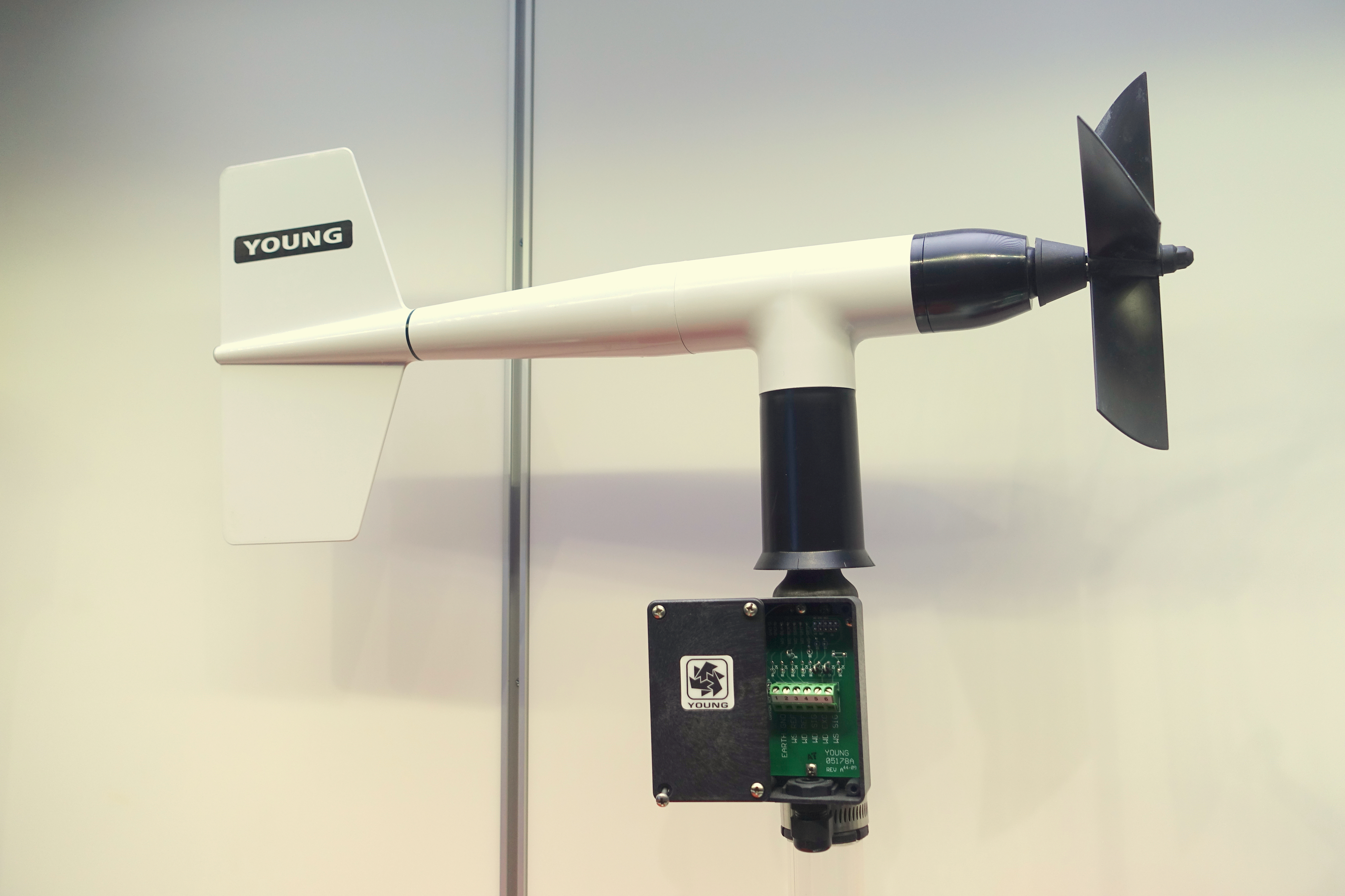 Exhibit in the Museum of Science and Industry, Chicago, Illinois, USA.